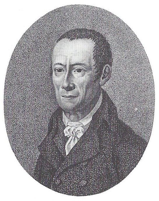 Lithographie von Prof. Christian Jacob Kraus (1753-1807)